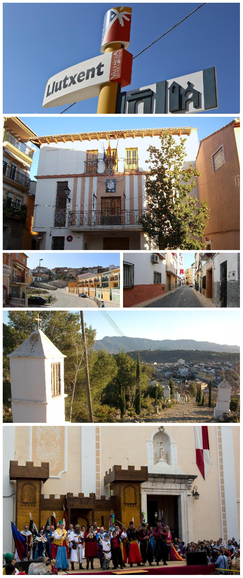 Collage of various places in Llutxent